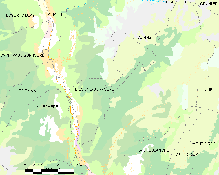 Map of French municipality